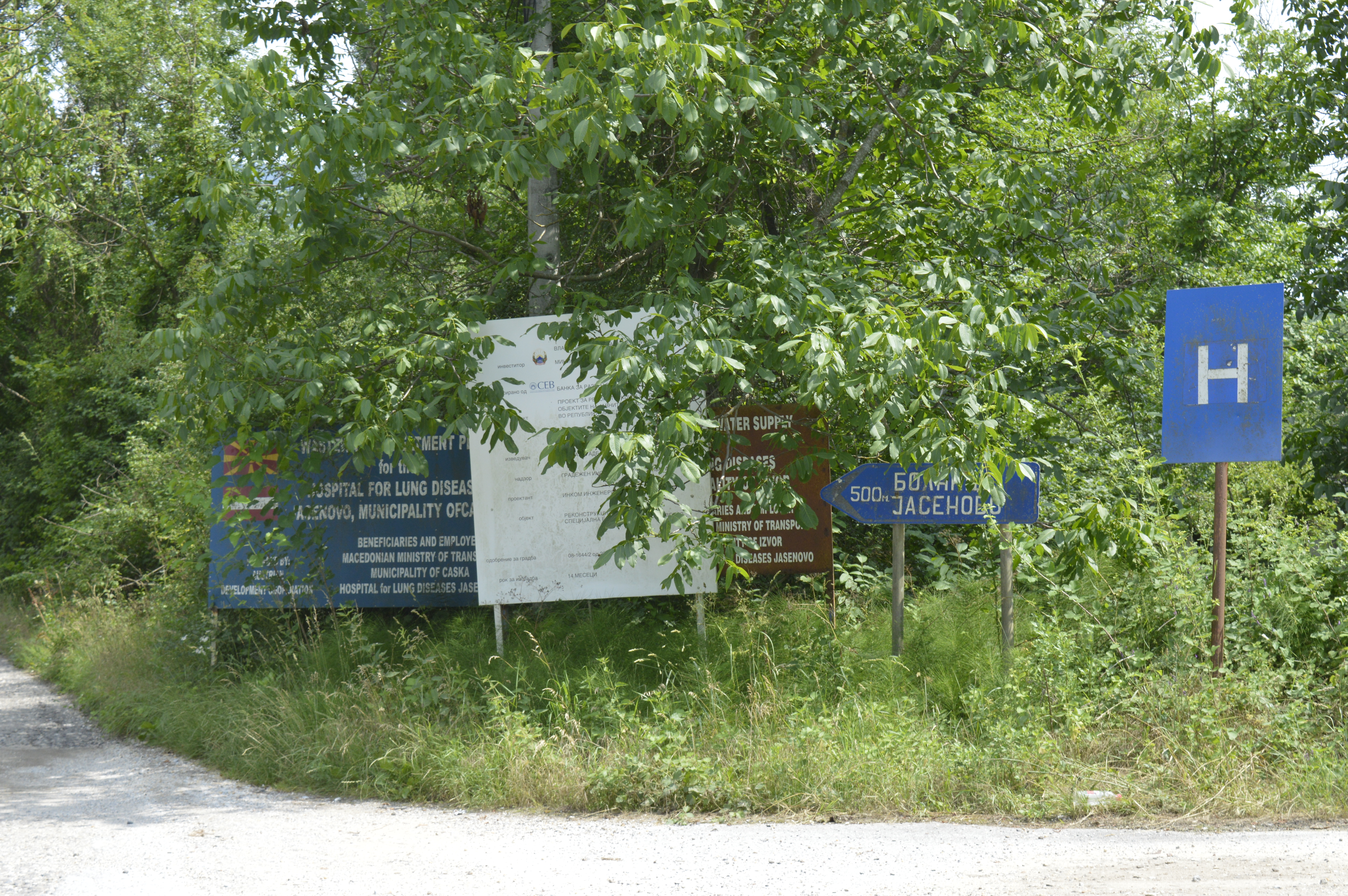 Road signs towards hospital in Jasenovo, Macedonia